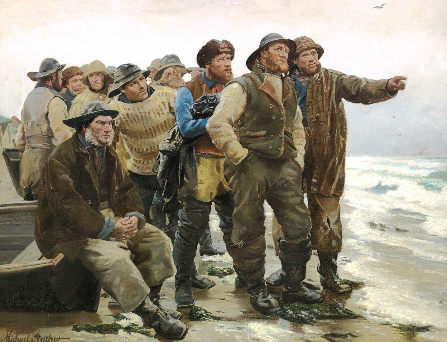 The experts at Bruun Rasmussen saw this painting as a repeat - by popular demand - of Ancher's larger 1879 painting with the same title. That version was bought by king Christian IX of Denmark and still belongs to the Danish Royal Family.